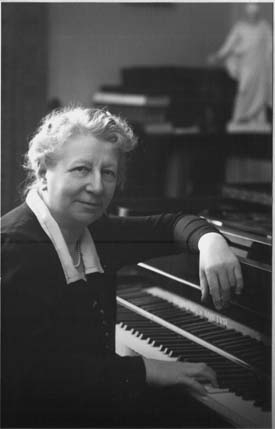 Photograph of the Danish pianist Johanne Stockmarr (1869-1944)